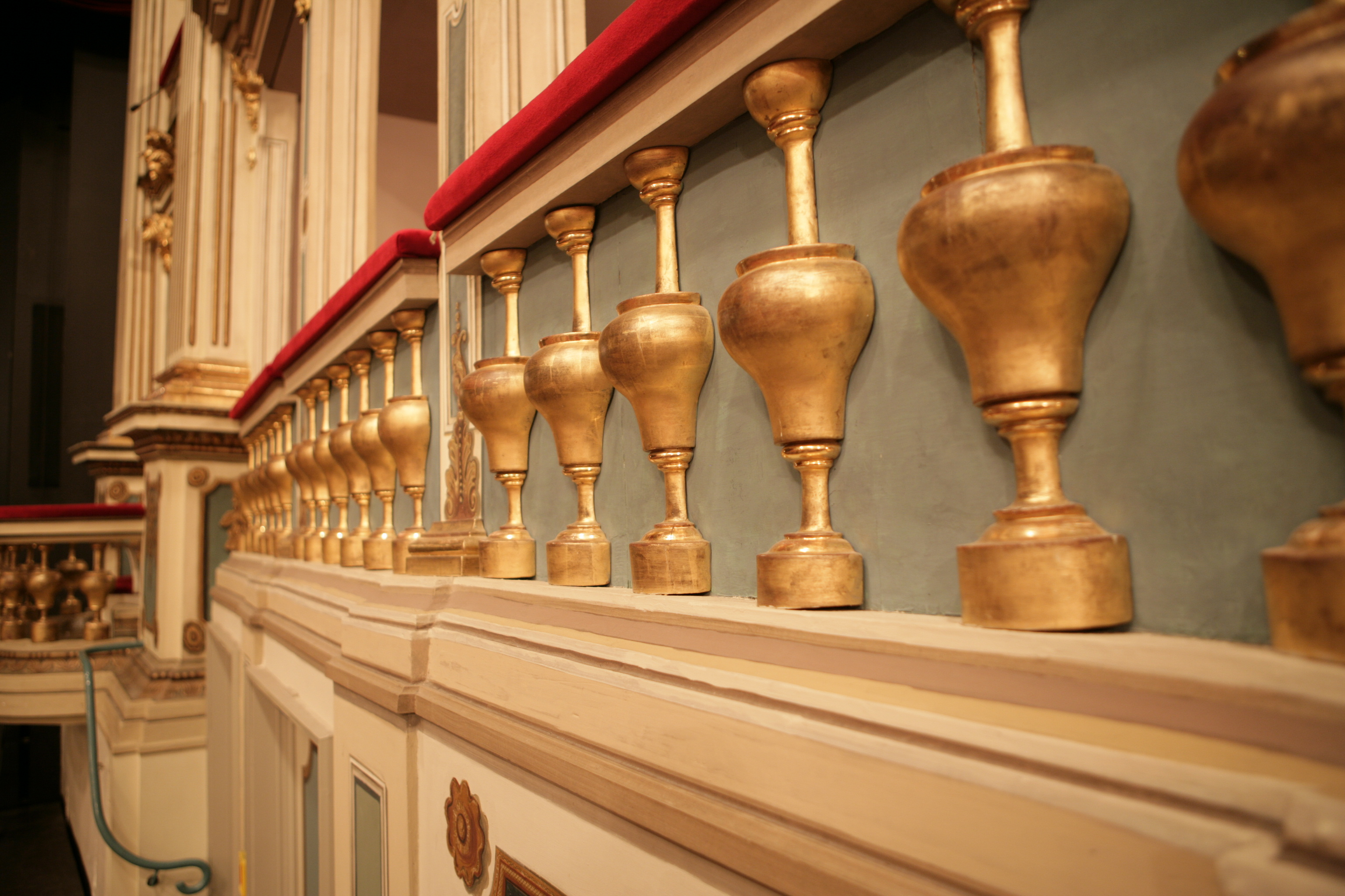 Im Innenraum des Markgrafentheaters